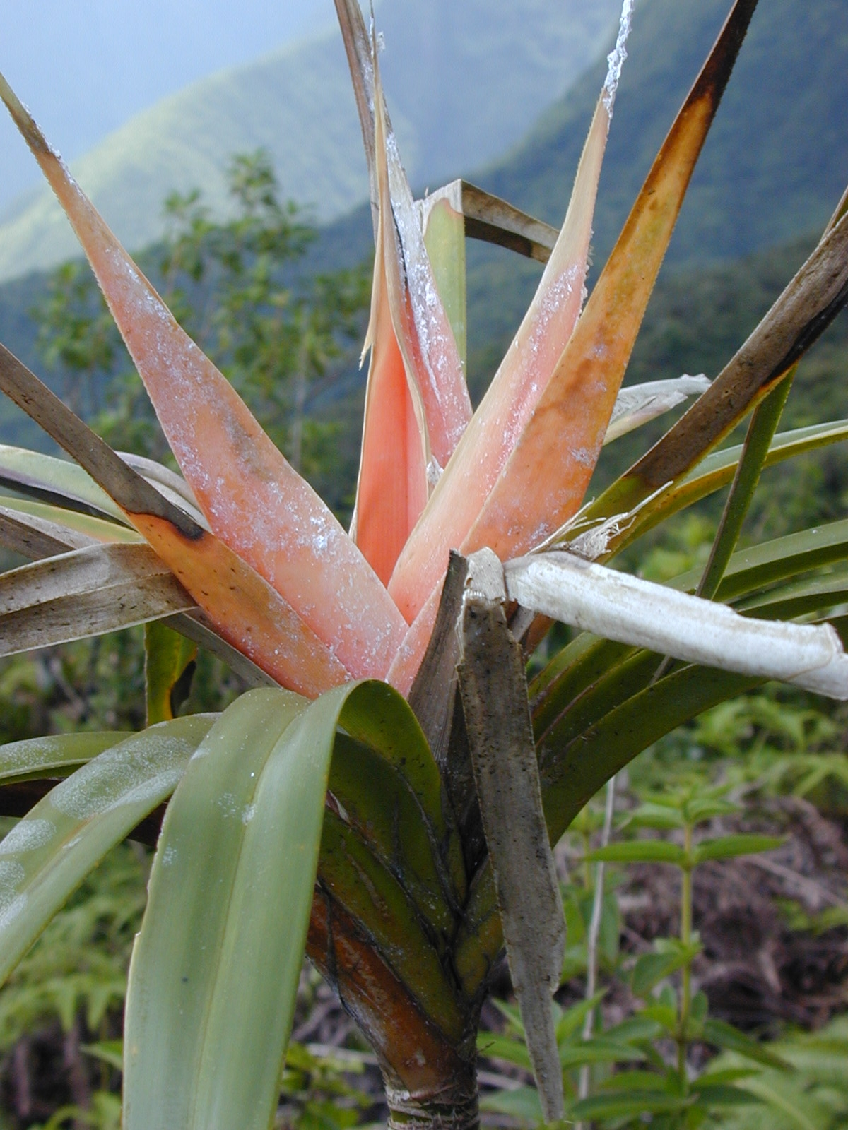 Freycinetia arborea (flower). Location: Maui, Waihee Ridge Trail